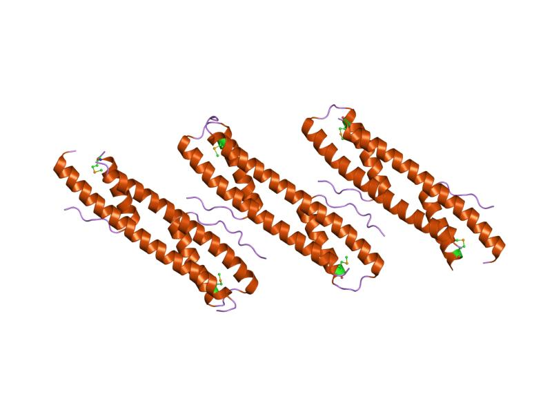 Cartoon representation of the molecular structure of protein registered with 1vp7 code.